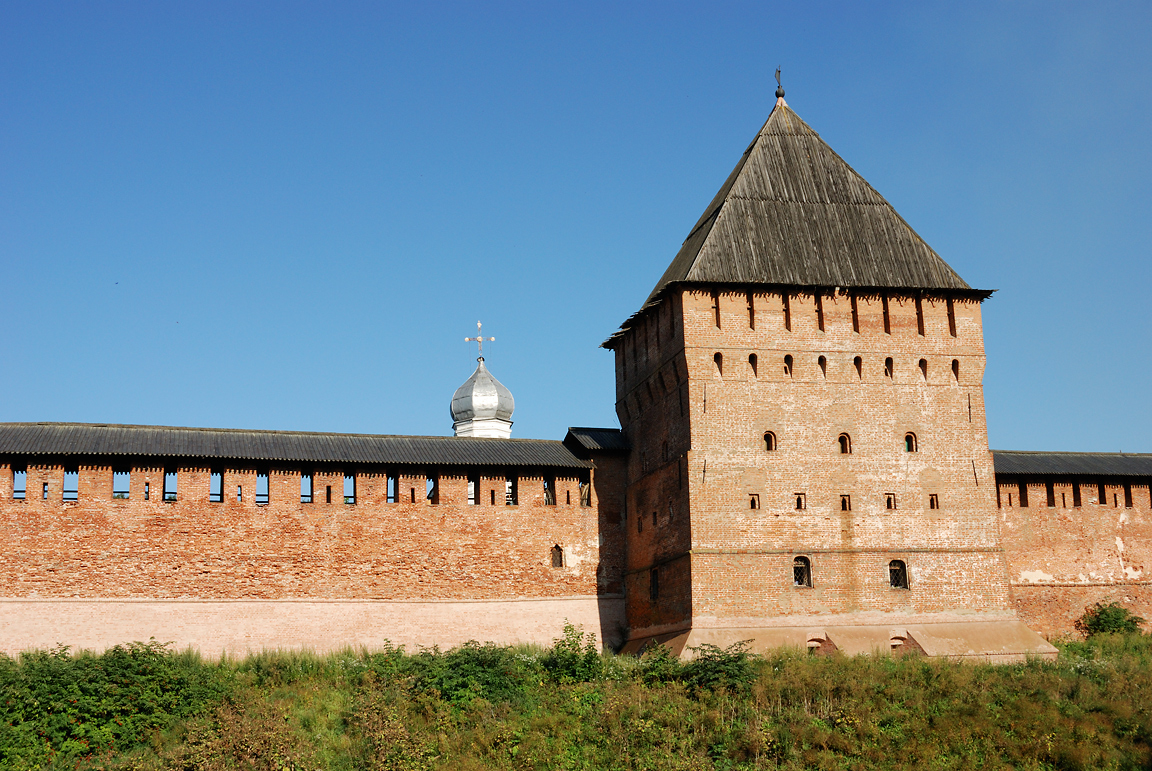 View from the outside of the Novgorod kremlin, from the western side